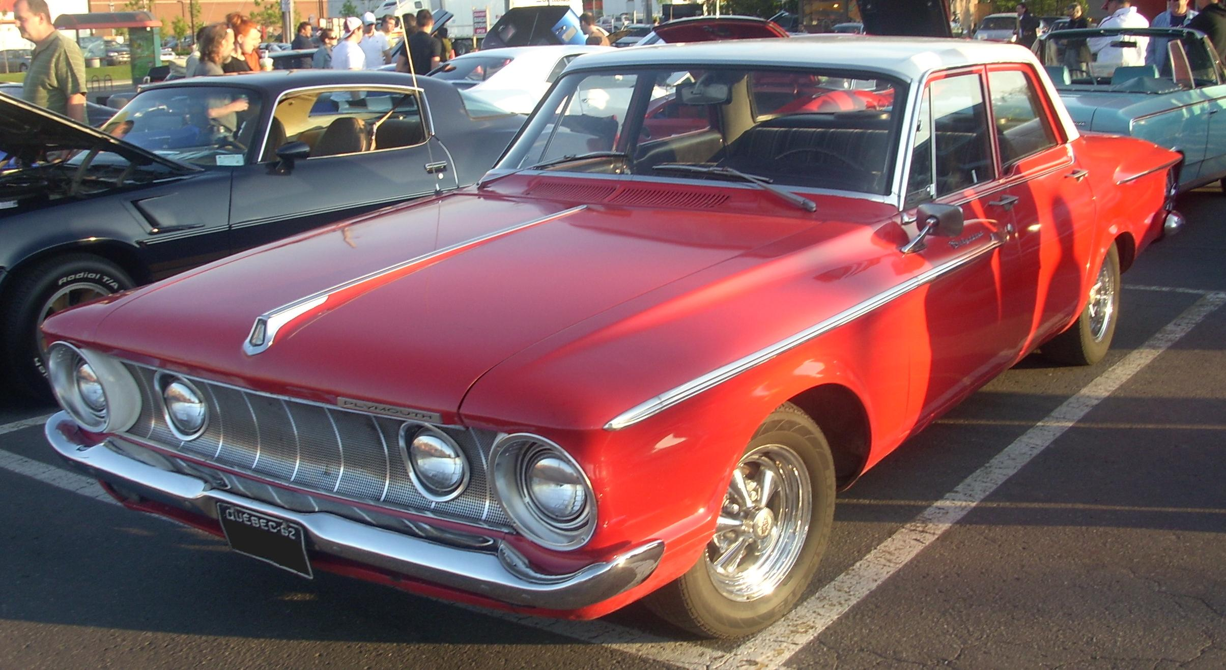 1962 Plymouth Belvedere photographed in Montreal, Quebec, Canada at Gibeau Orange Julep.